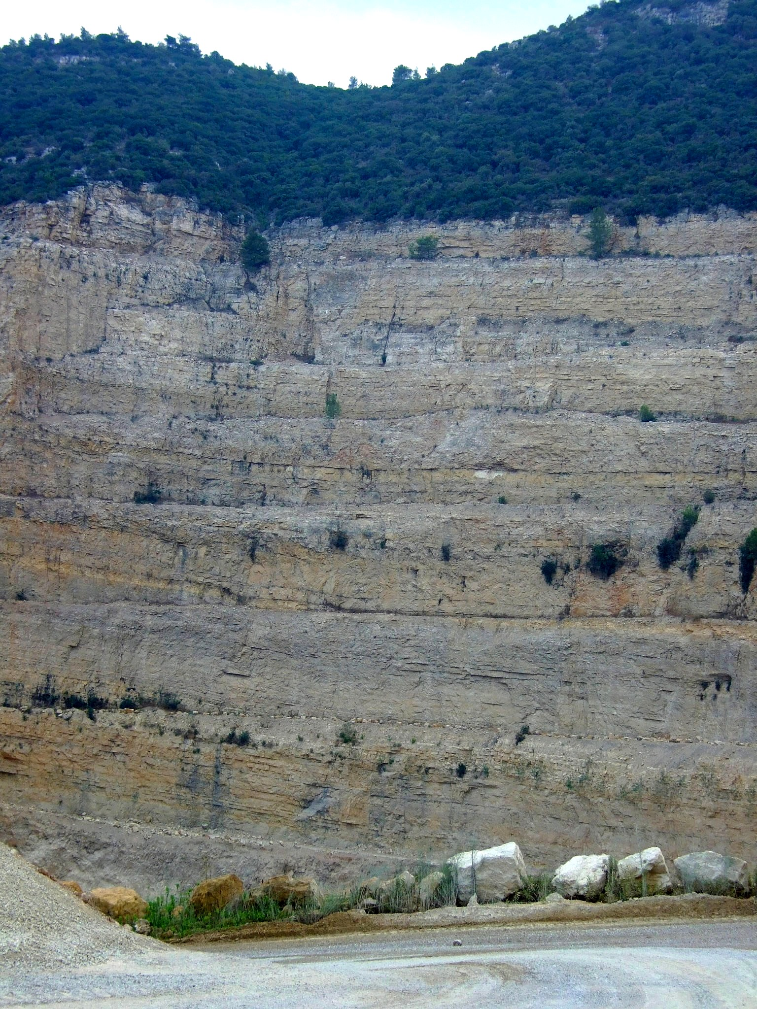 Rocks in Mount Carmel סלעי תצורת יגור במחצבת נשר שבנחל נשר